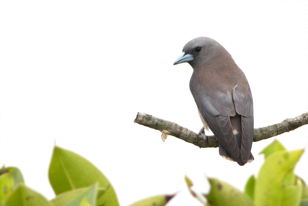 Ashy Woodswallow from Sundarban Tiger Reserve during the wildlife photography tour from West Bengal India in 2017.